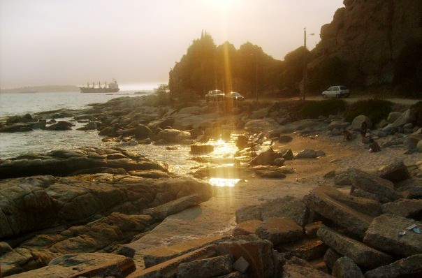 Las Ventanas